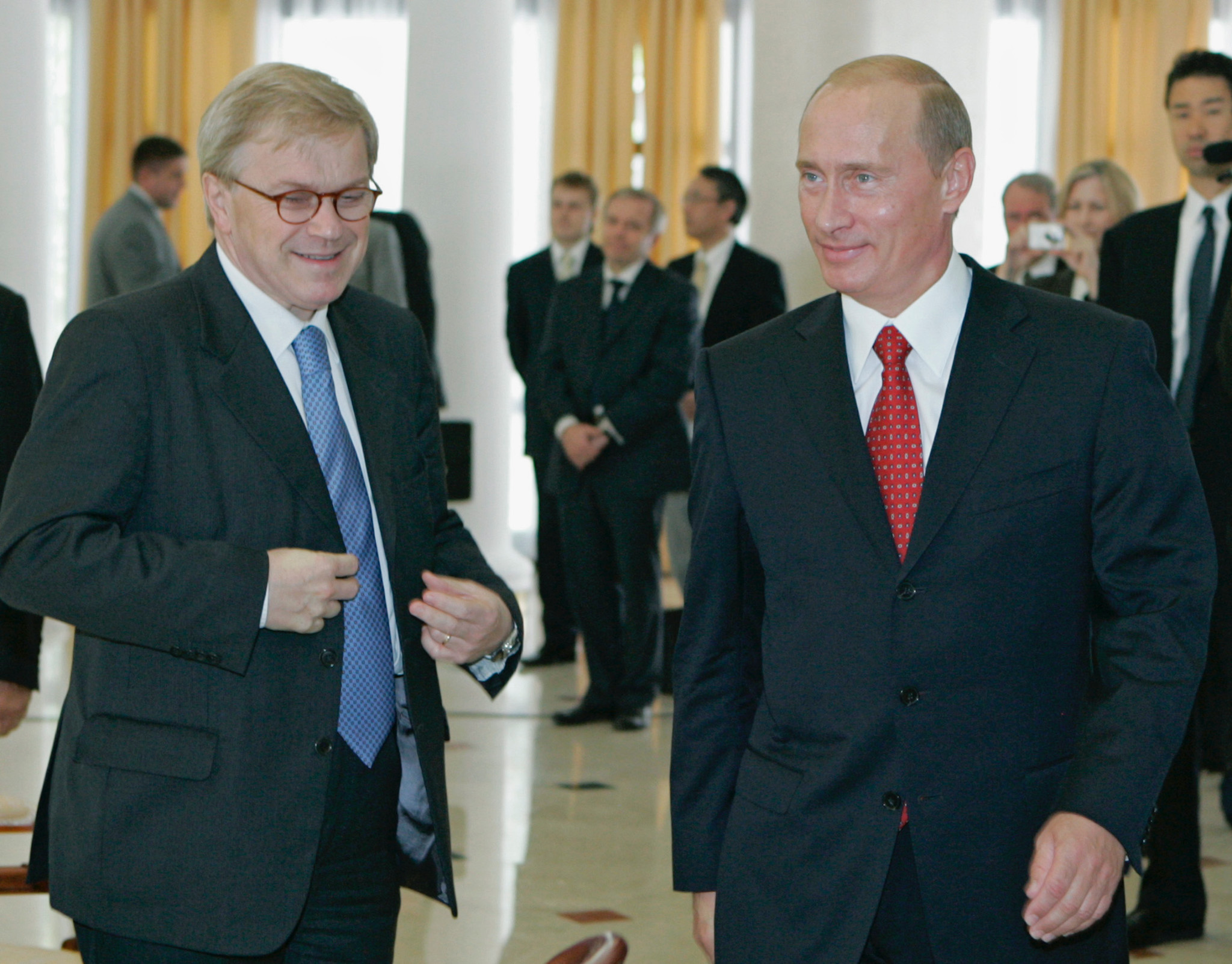 Pierluigi Castagnetti, first deputy head of the Italian Chamber of Deputies, and Russian President Vladimir Putin (left to right) at the Rus sanatorium, Sochi